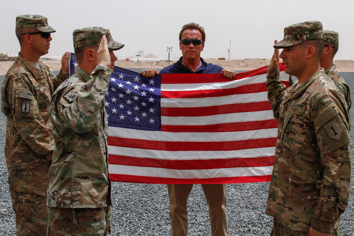 Arnold Schwarzenegger, the former governor of California, observes the Oath of Enlistment ceremony of Spc. James Berg, a wheeled vehicle mechanic with Company B, 299th Brigade Support Battalion, at Camp Buehring, Kuwait, April 28, 2016. Schwarzenegger filmed a National Geographic documentary, Years of Living Dangerously, a TV series and internet project focused on climate change which is scheduled to air in October. Taking center stage, the USARCENT operational energy program showcased initiatives to conserve energy and resources, including installing solar power light towers, implementing solar panels, and modular energy efficient structures.